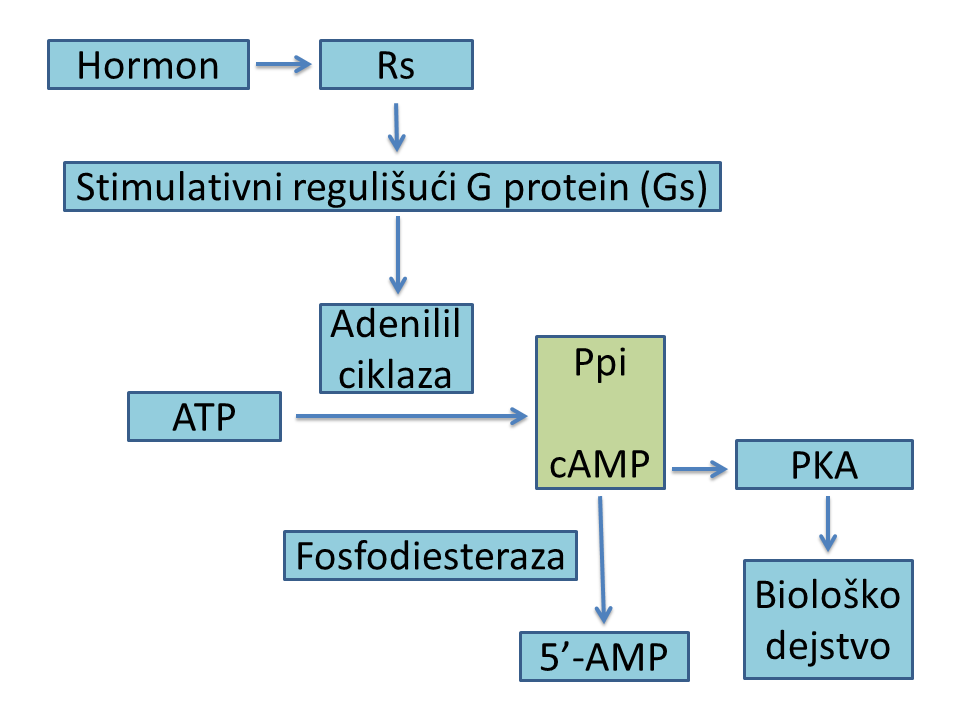 A sketch of the effect of Rs and Gs in cAMP signal pathway. The labels are given in Serbian language